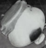 Ghumot, Goan drum